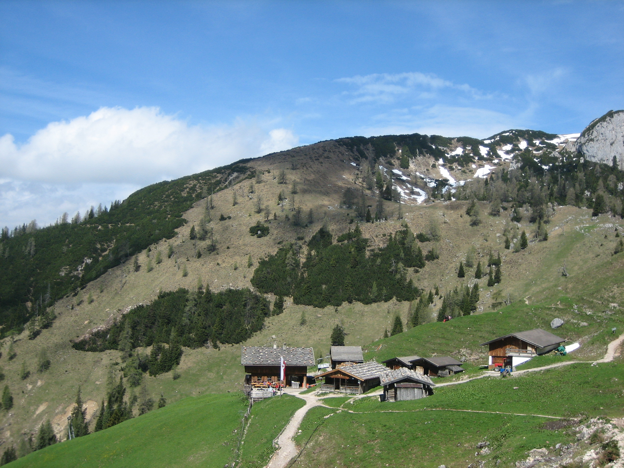 Dalfazalm (alpine pasture), Rofan mountains, Austria